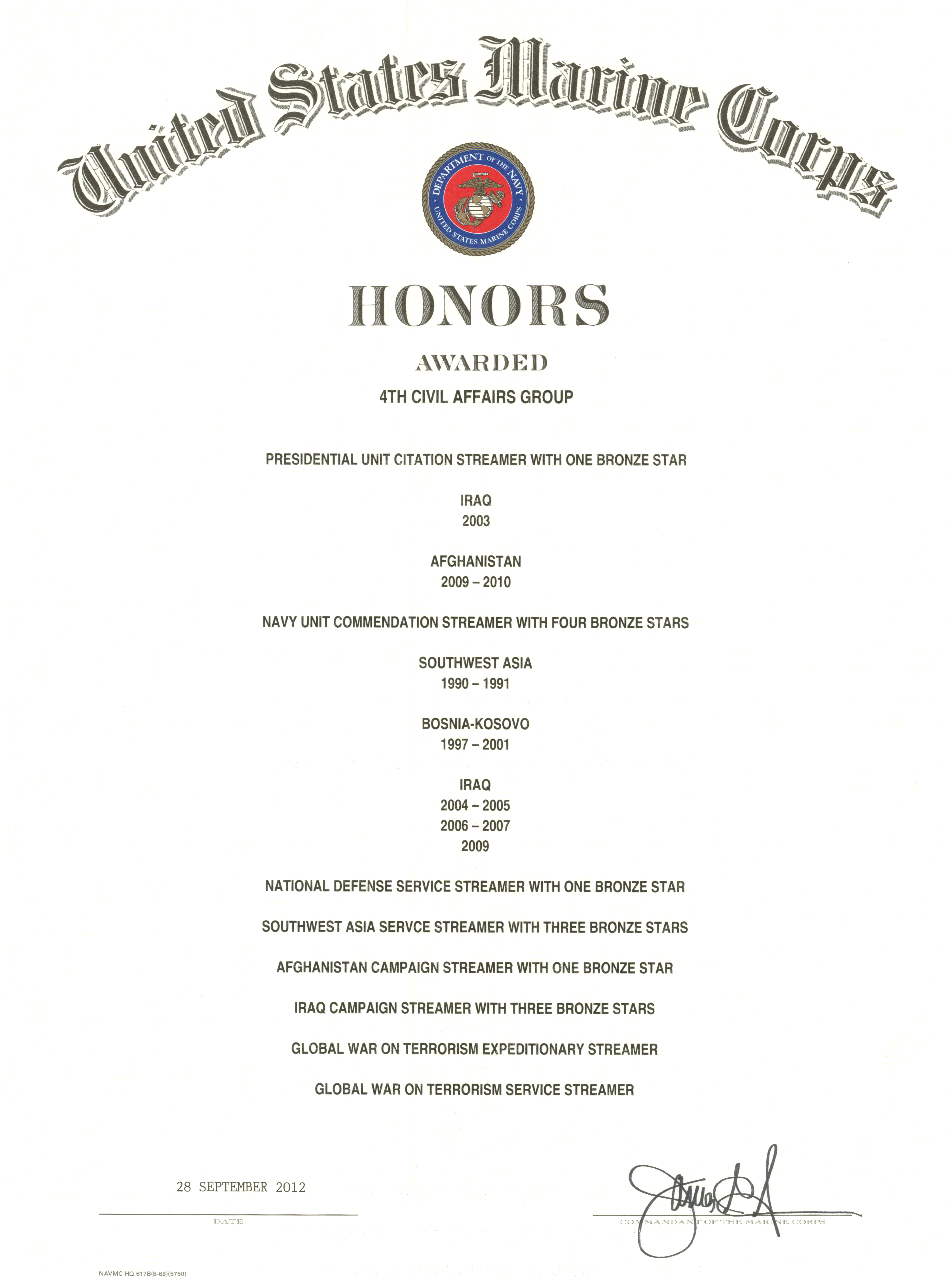 Official Honors of the 4th Civil Affairs Group, United States Marine Corps.